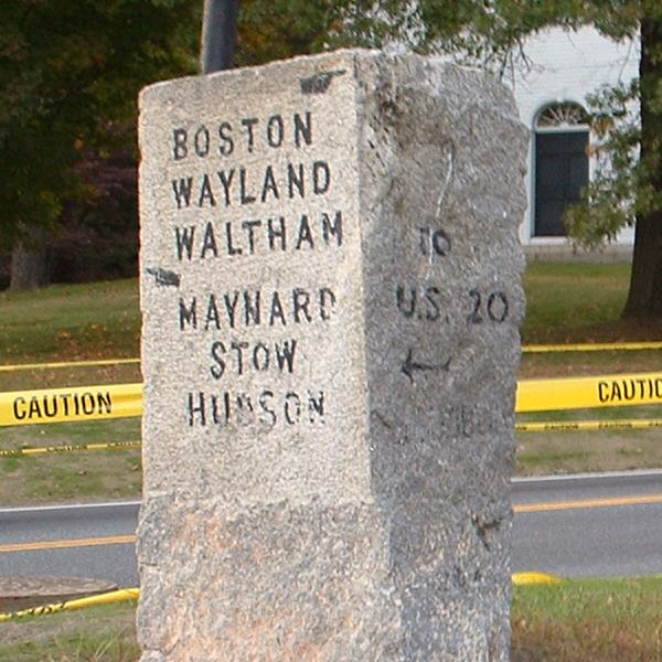 Antique signpost along Route 27 and Concord Road in Sudbury, Massachusetts. The left side faces Route 27.